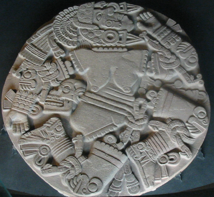 The Coyolxauhqui Stone, discovered at the site of the Templo Mayor of Tenochtitlan.